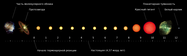 Life-cycle of the Sun (Size not in scale. Colors conventional. Time scale in Billions of Years (approx.)